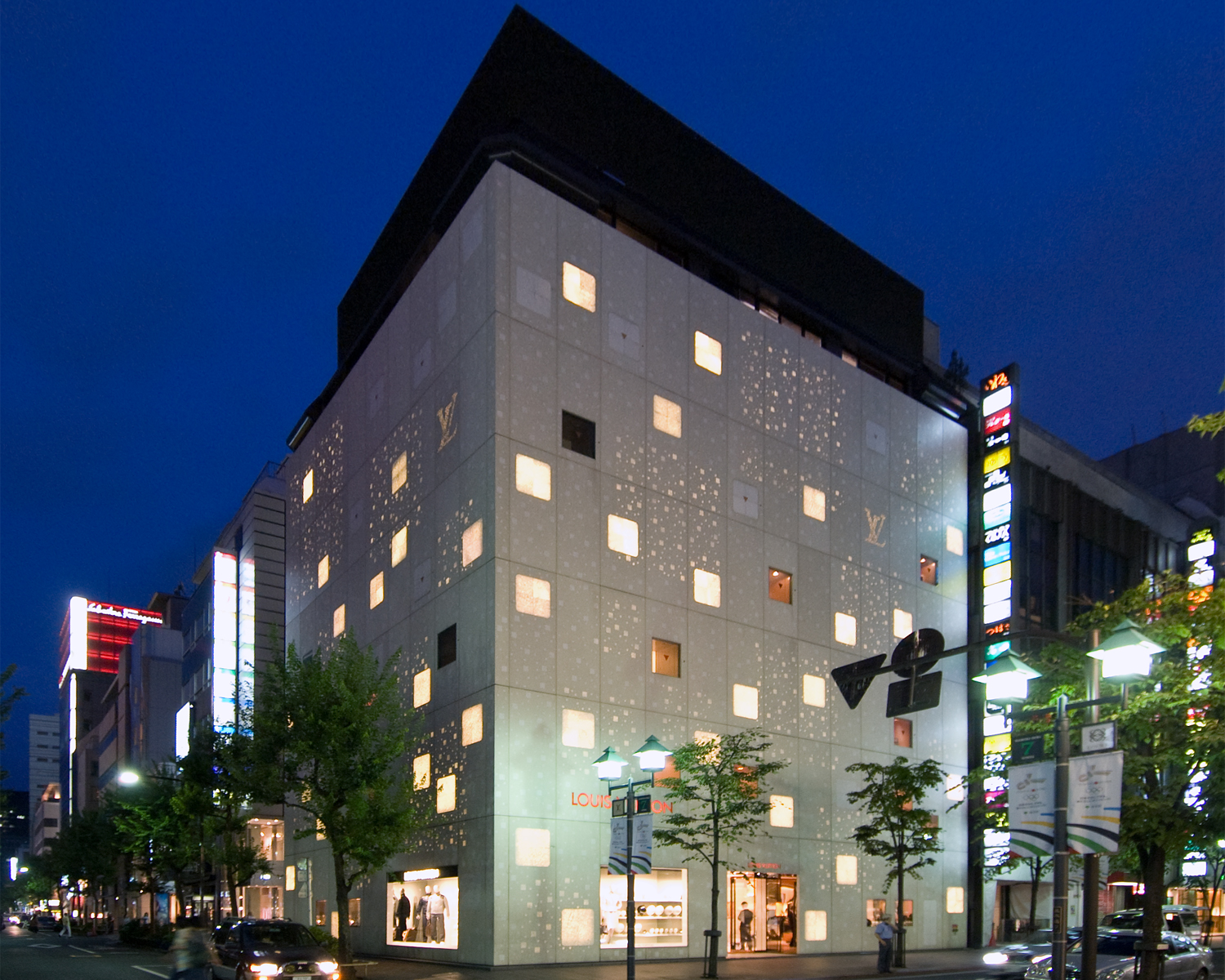 Louis Vuitton Ginza Namiki St, at Ginza Tokyo Japan. Design by Jun Aoki in 2004.